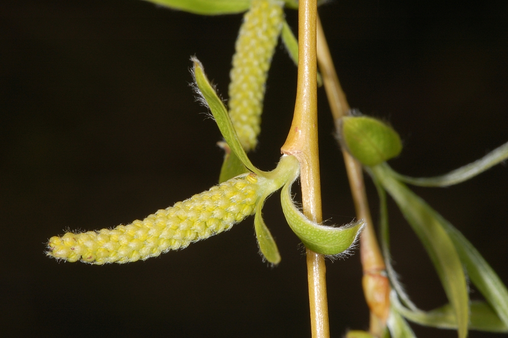 Salix × sepulcralis, Selzerbrunnen, Nied, Frankfurt/Main, Germany